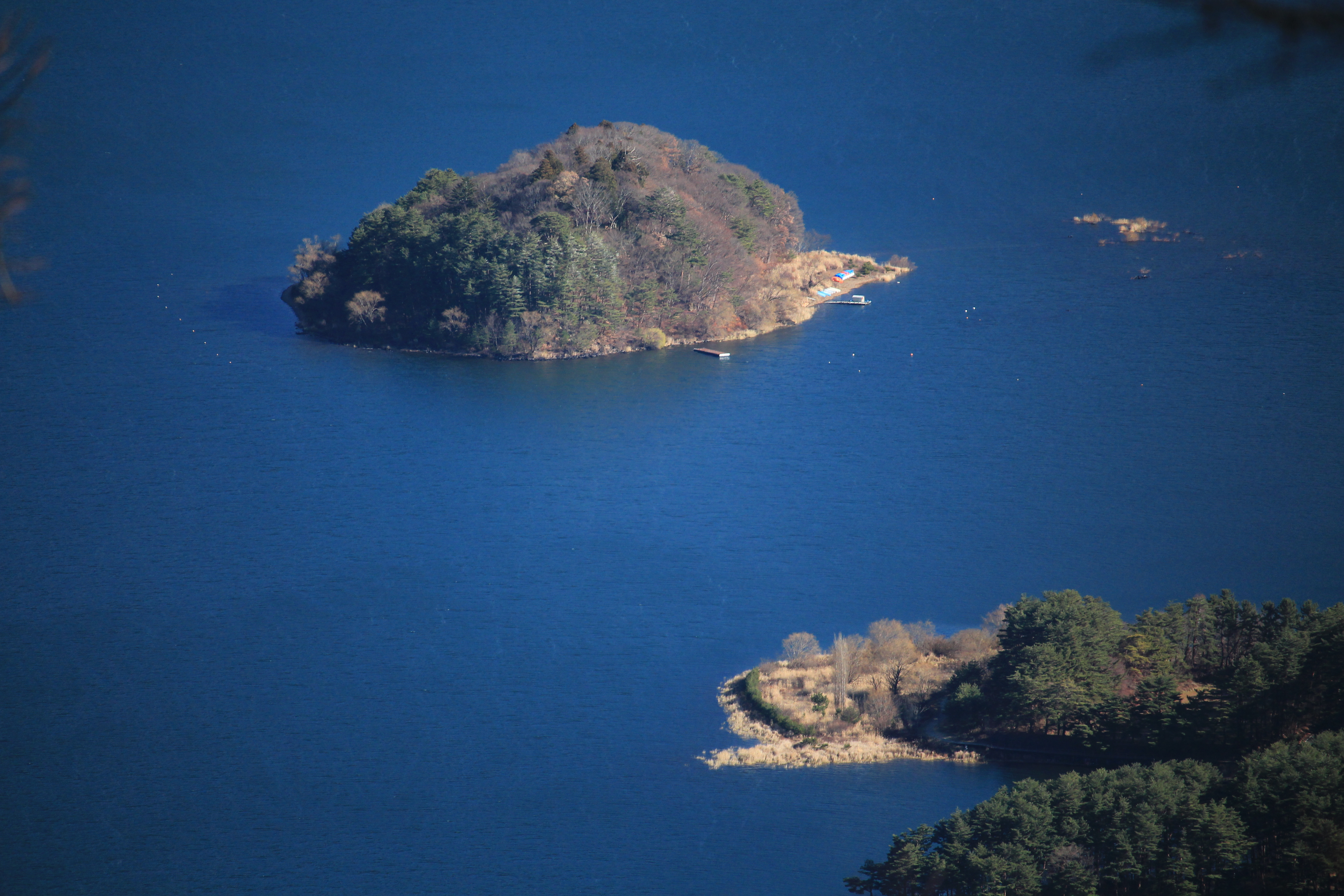 U Island (U-no-shima) seen from Mount Ashiwada in Lake Kawaguchi, Fujikawaguchiko, Yamanashi prefecture, Japan.